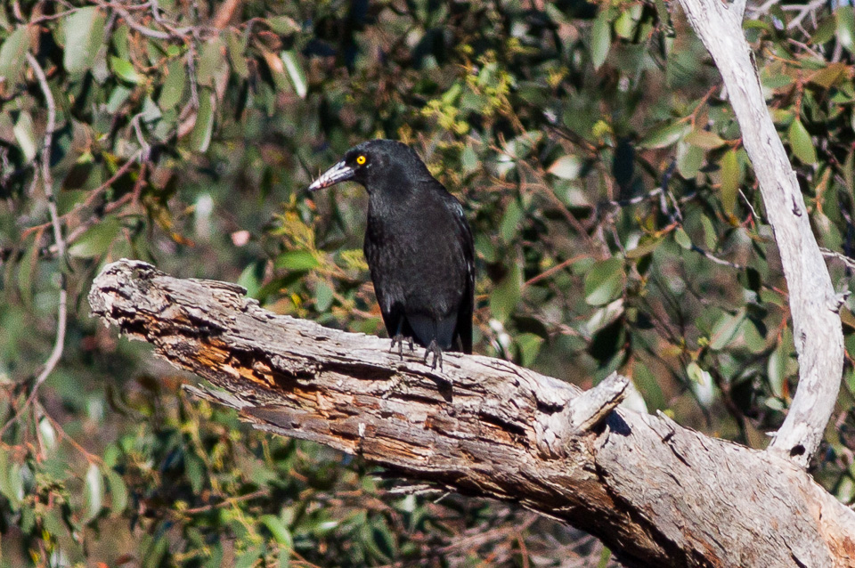 Grey Currawong (Strepera versicolor)